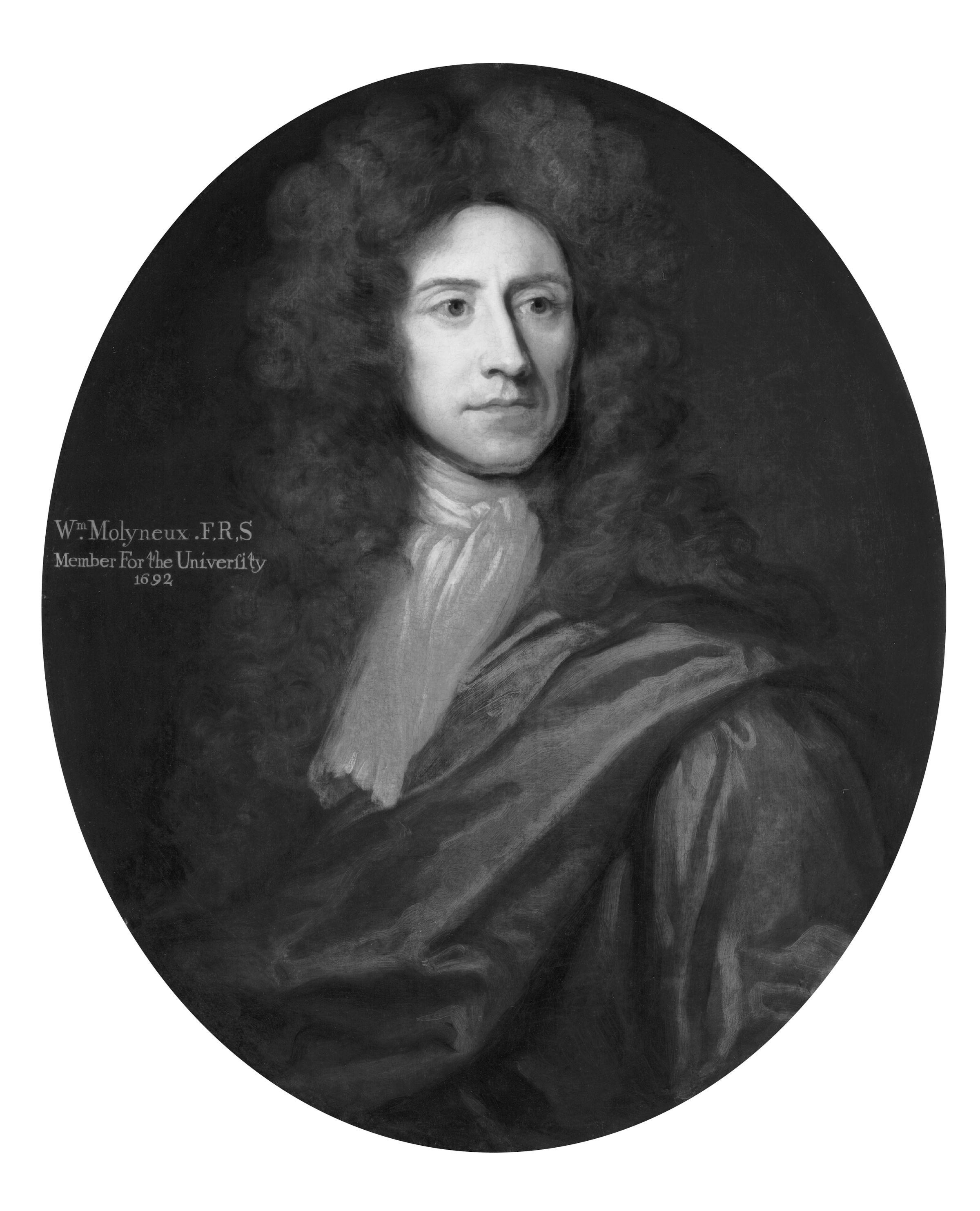 William Molyneux, by Sir Godfrey Kneller, Bt (died 1723). All images in this batch have been confirmed as author died before 1939 according to the official death date listed by the NPG.